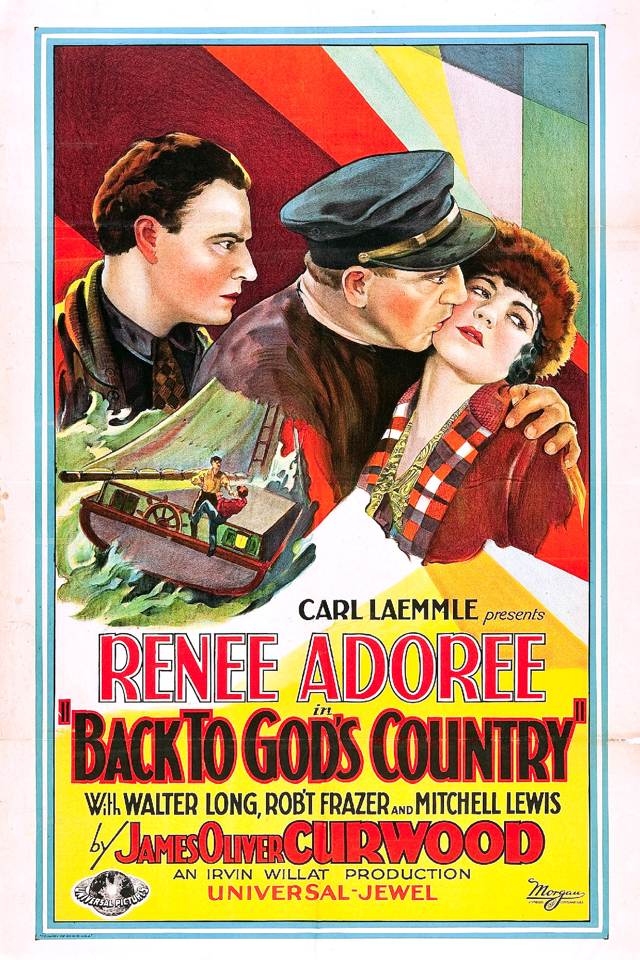 Poster for the 1927 film Back to God's Country. There are no copyright marks on the item. At lower left is the Universal logo and Country of origin USA (in border). At lower right is the Morgan Litho Company, Cleveland, logo-they printed the poster.